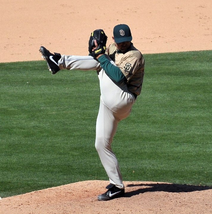 Trevor Hoffman of San Diego Padres